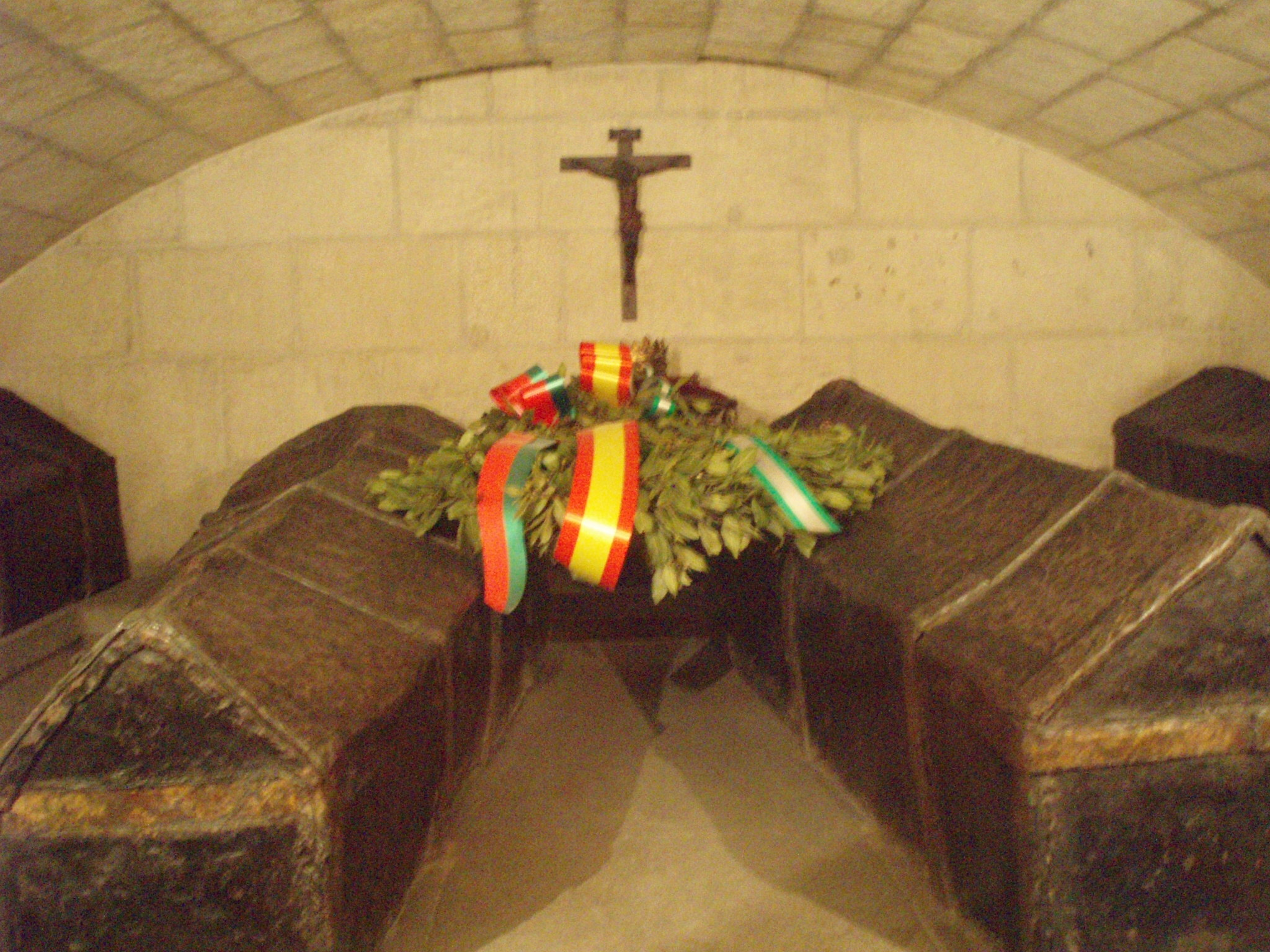 Picture made by Looi, 2006, Coffins of Queen Isabella I of Castile and King Ferdinand II of Aragon in Granada Cathedral